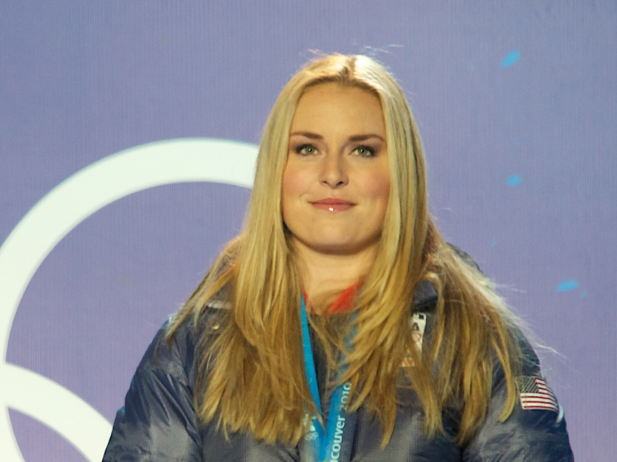 Lindsey Vonn. The Medal Ceremony at Whistler on Day 9 of the Vancouver 2010 Winter Olympics.